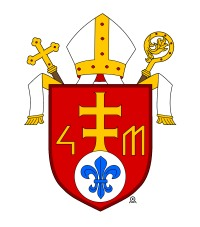 Coat of arms of Nitra diocese